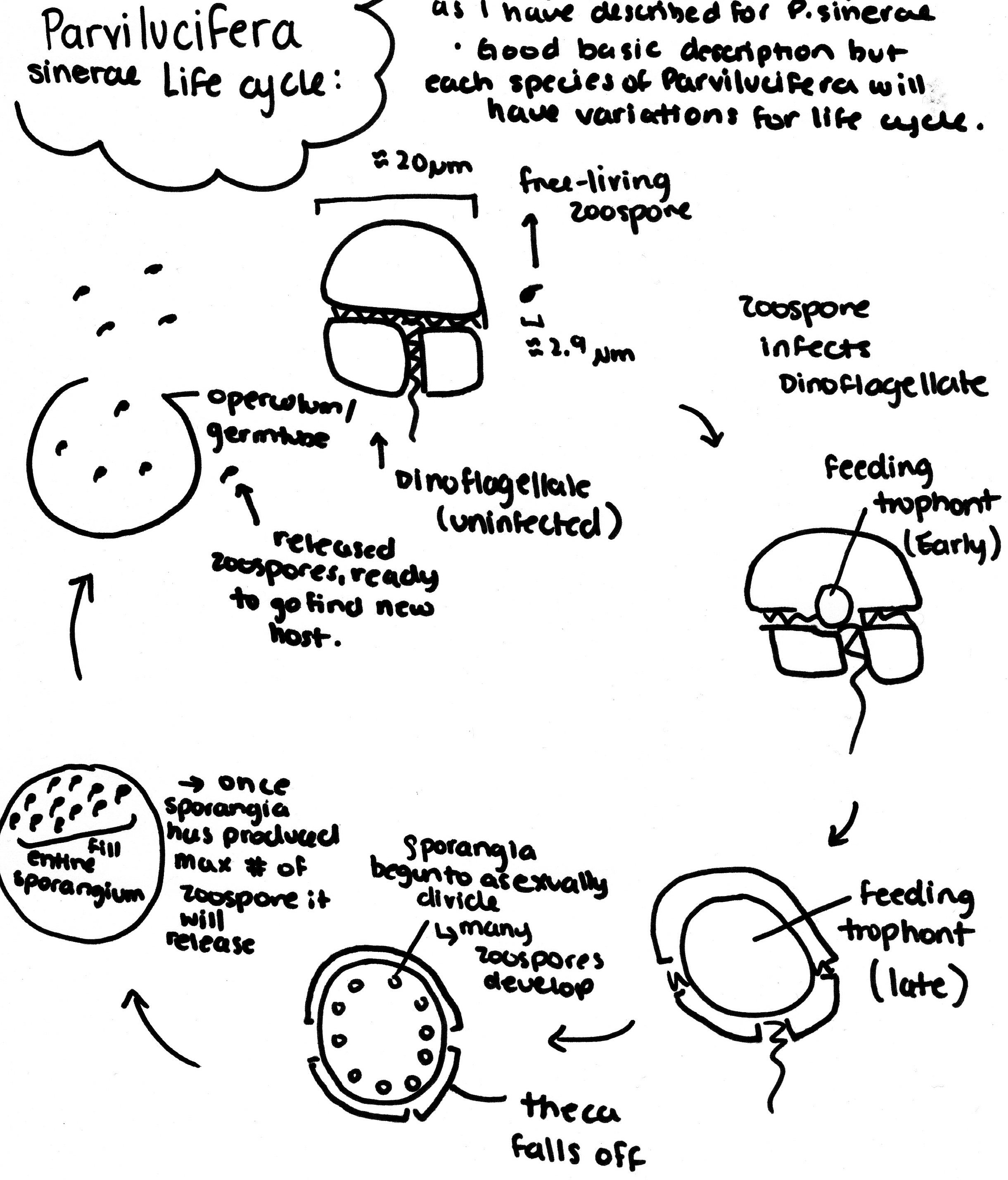 This drawing is a very basic description of the life cycle of Parvilucifera sinerae infecting a dinoflagellate cell